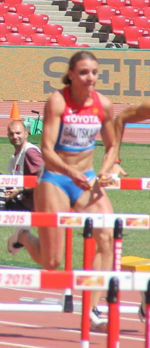 Yekaterina Galitskaya at the 2015 World Championships in Athletics